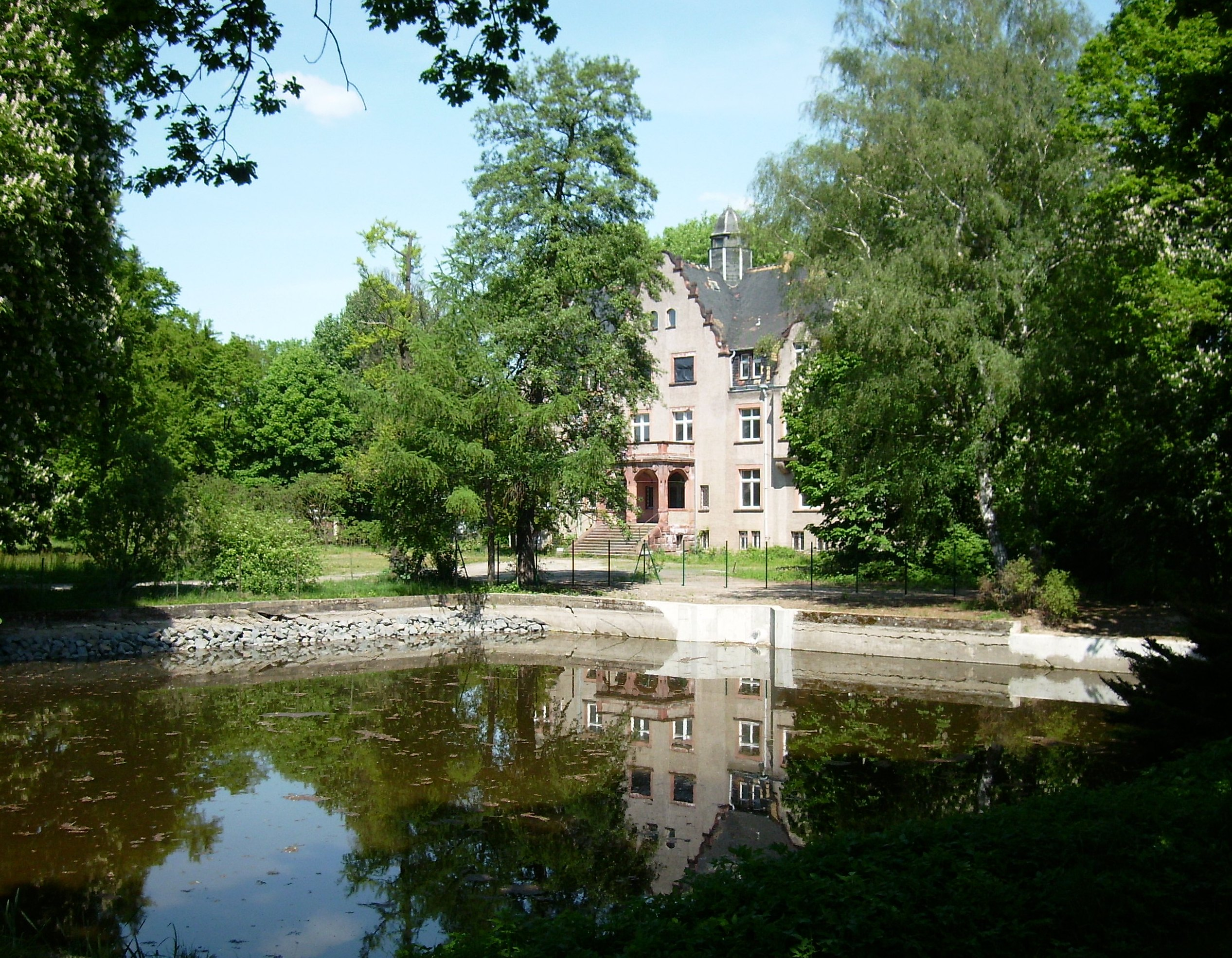 Zschorna manor house (Hohburg, Leipzig district, Saxony)